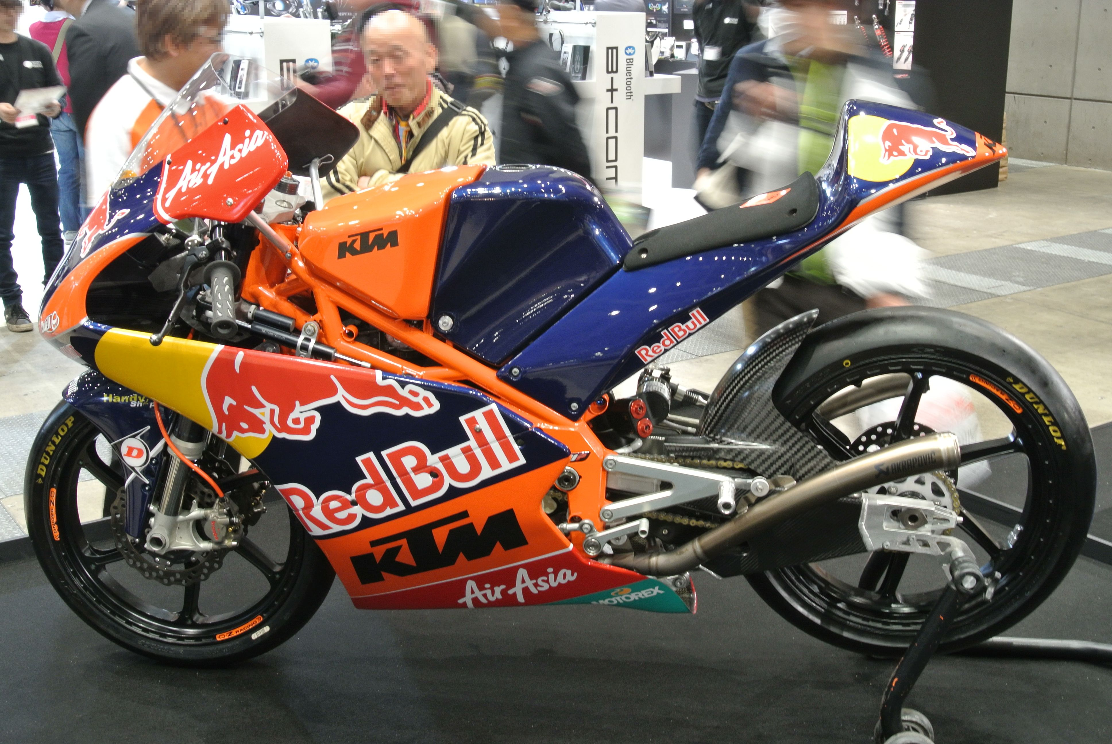 KTM Racing Motorcycle M32GP(RC250GP) at the Tokyo Motorcycle Show 2014.